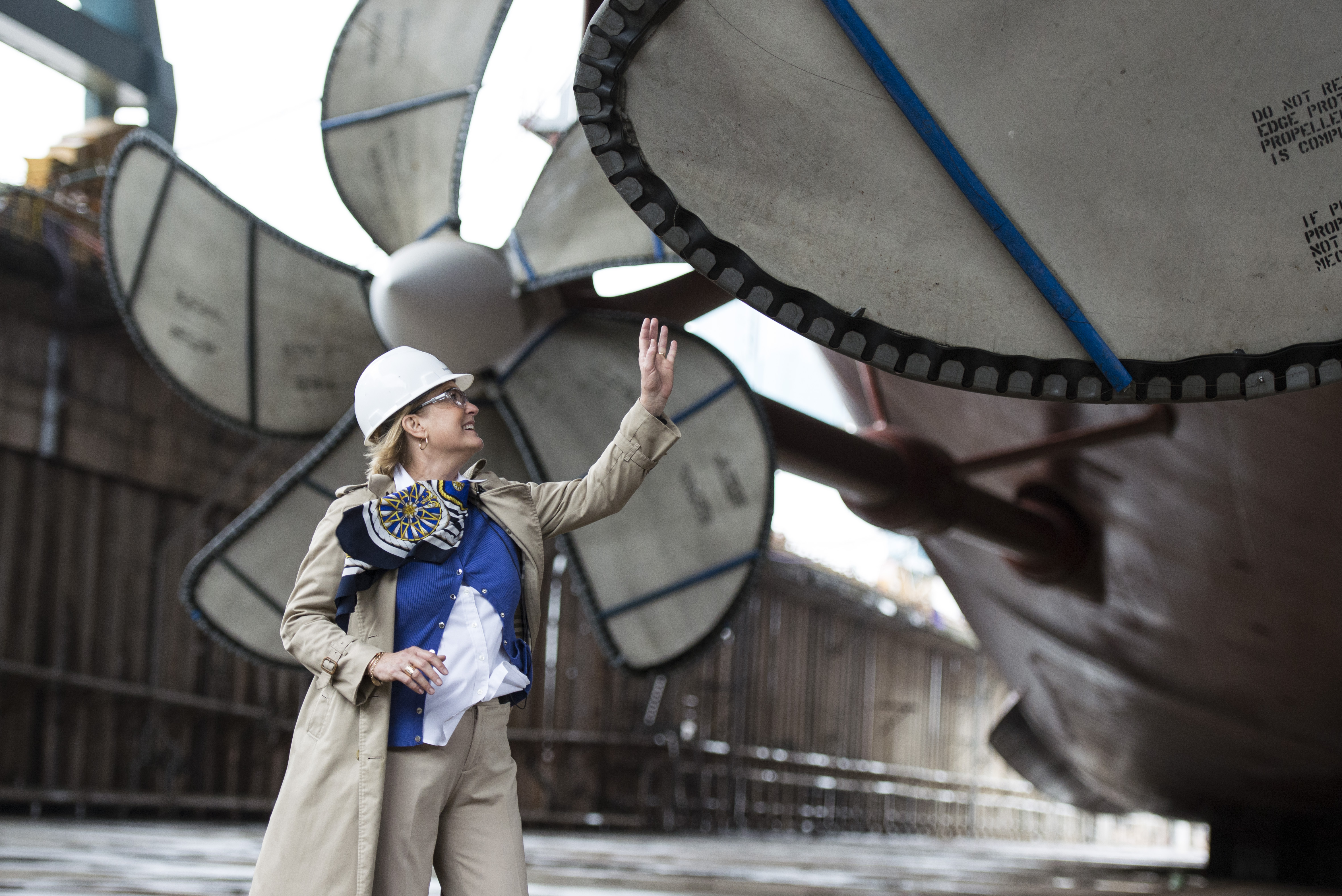 Susan Ford Bales, ship's sponsor for the aircraft carrier USS Gerald R. Ford (CVN-78), tours Dry Dock No. 12 at Newport News Shipbuilding prior to flooding the basin and floating Gerald R. Ford for the first time.